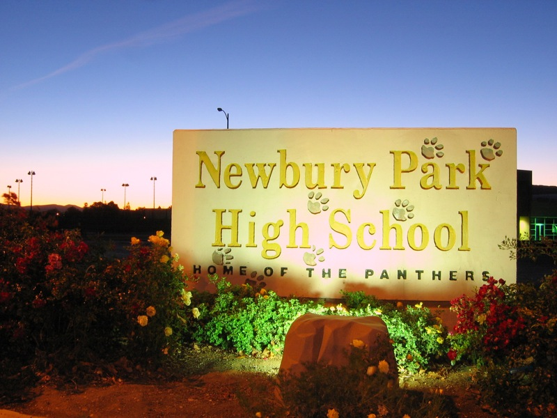 Newbury Park High School sign — Newbury Park, California. "This is the sign outside of my son's High School. I pass this every morning on my walks with Yoshi."